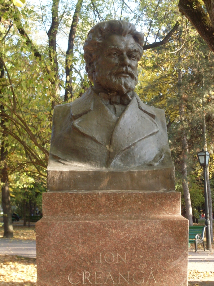 Bust of Ion Creangă by Lev Averbuh (1957) in the Alley of Classics of Chişinău.